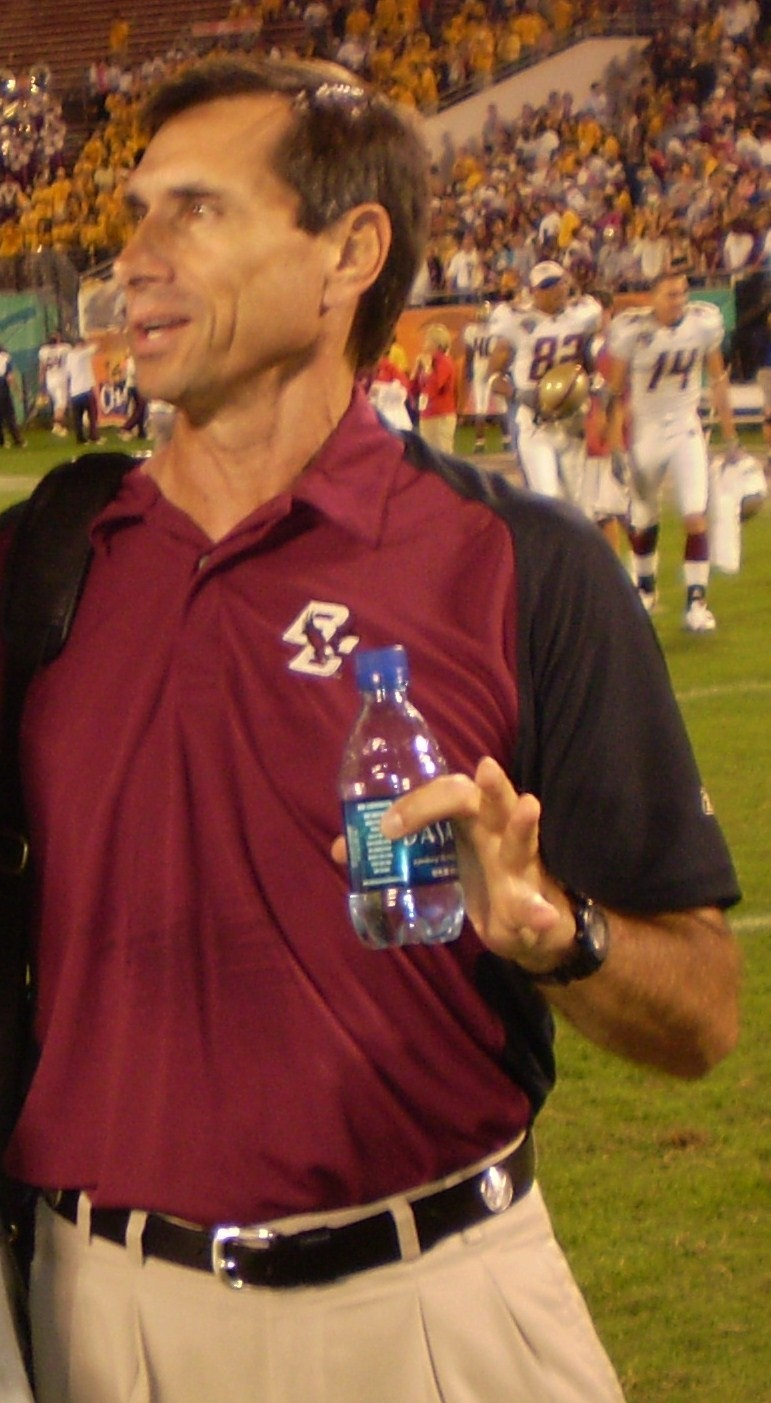 Steve Logan (right), American football coach